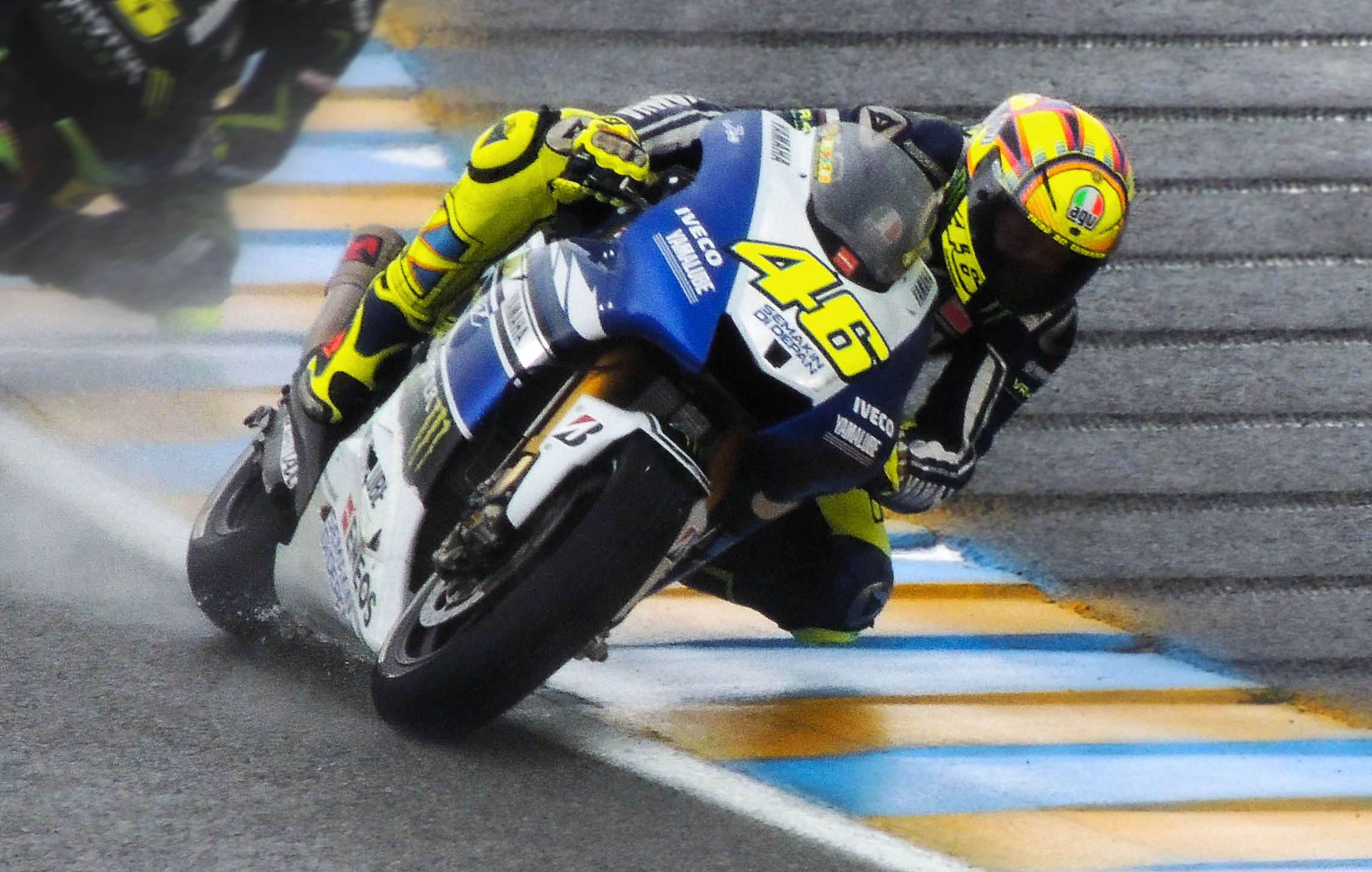 Valentino Rossi at Grand Prix of France, Mans 2013.